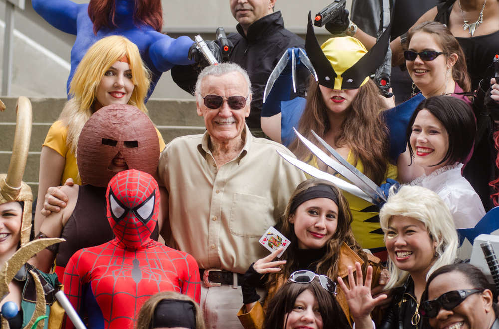 DragonCon 2012 - Marvel and Avengers photoshoot